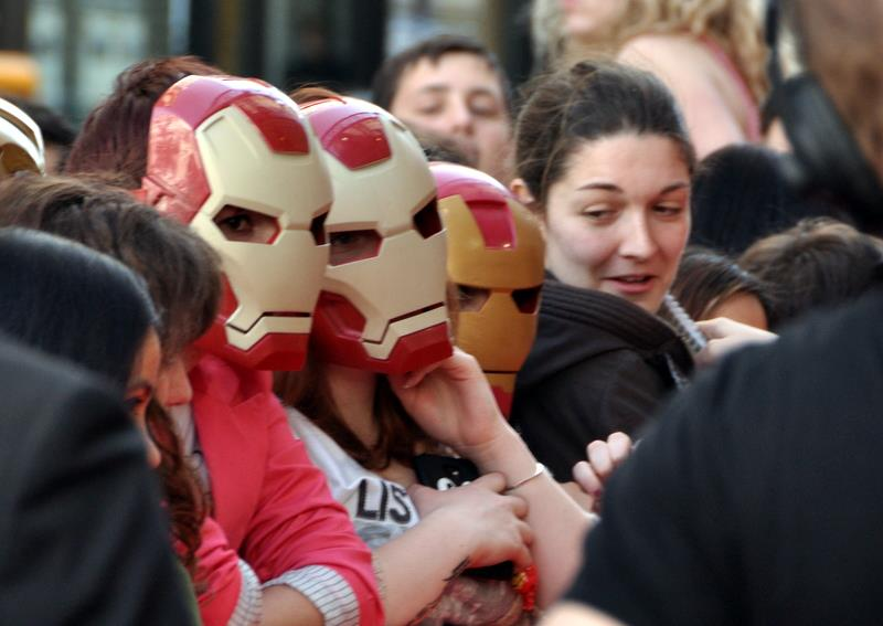 French premiere of "Iron Man 3".